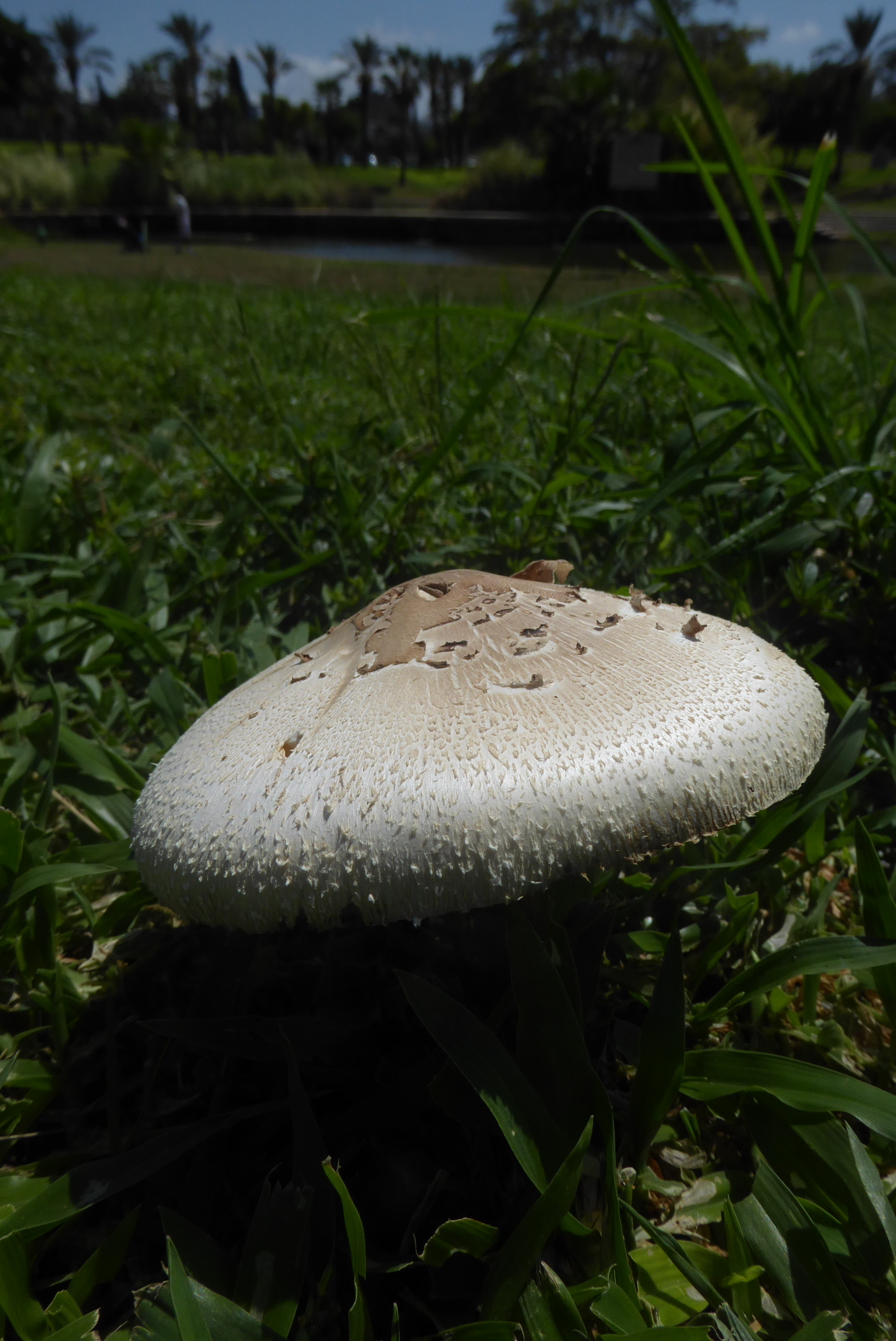 Edith Wolfson Park